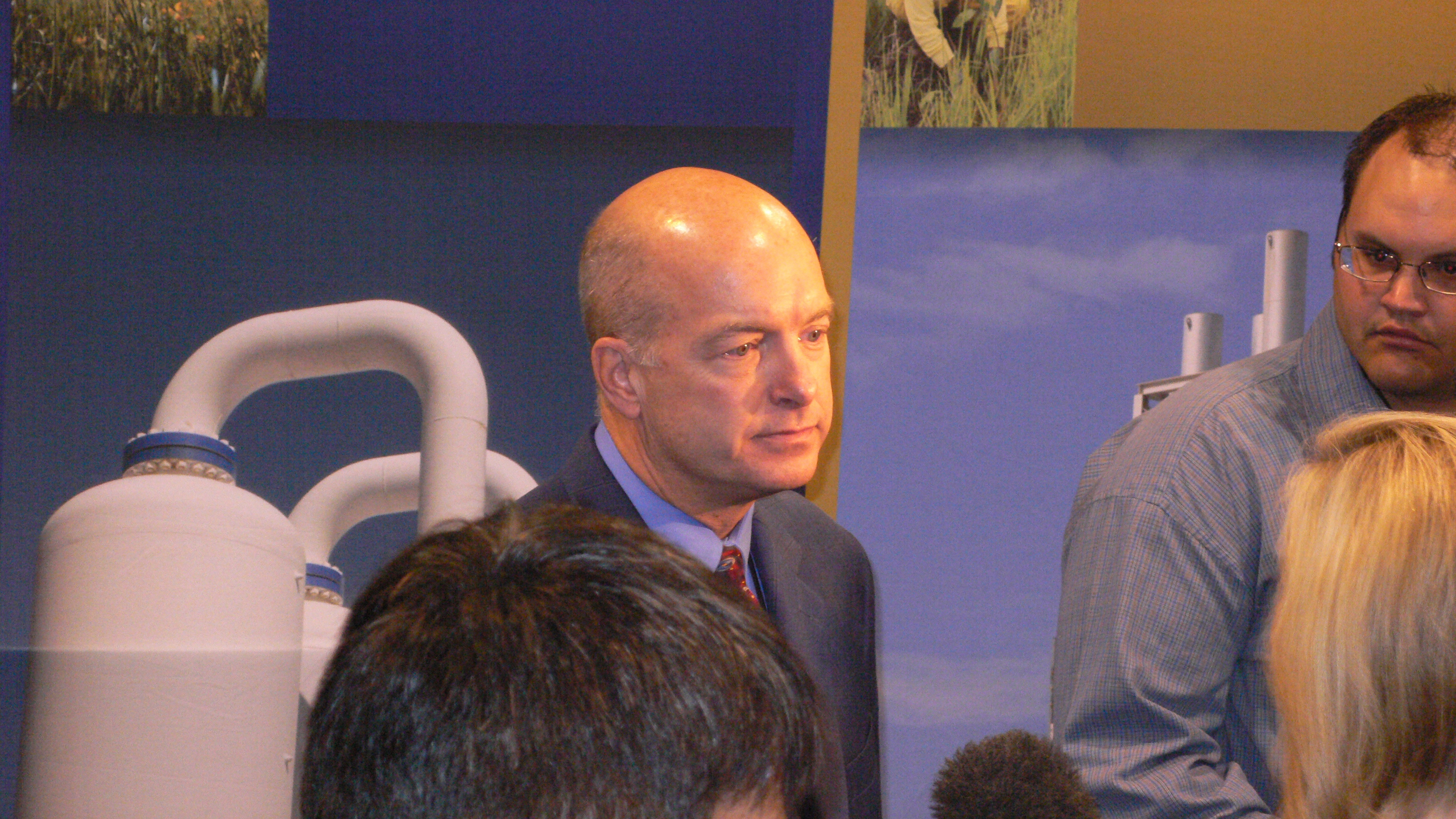 David Sokol of MidAmerican Energy at Berkshire Hathaway Meeting 2009